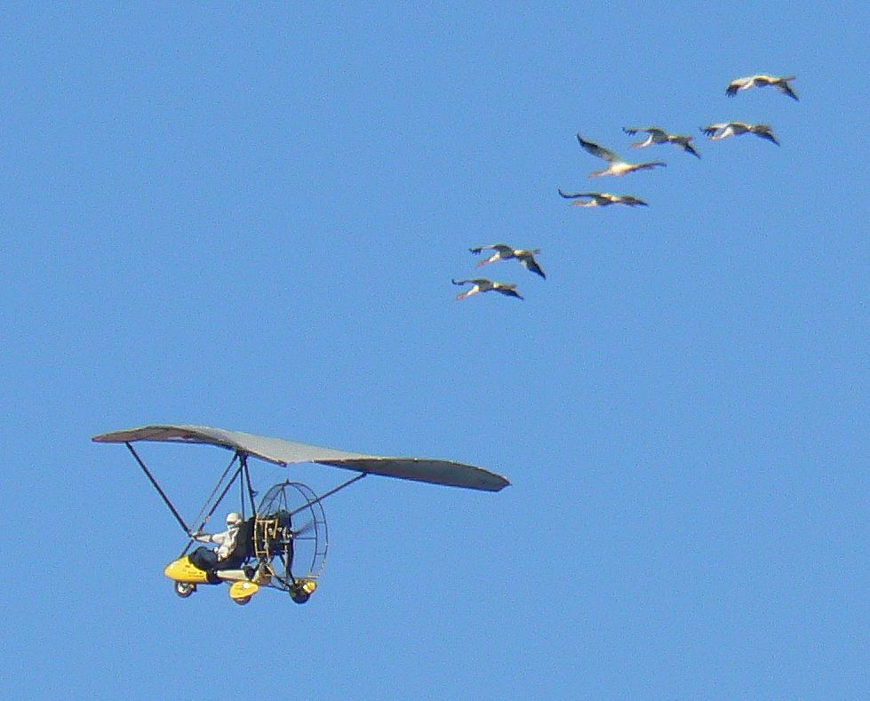 Young Whooping Cranes completing their first migration, from Wisconsin to Florida, in January 2009, following an ultralight aircraft. This procedure is carried out by Operation Migration.